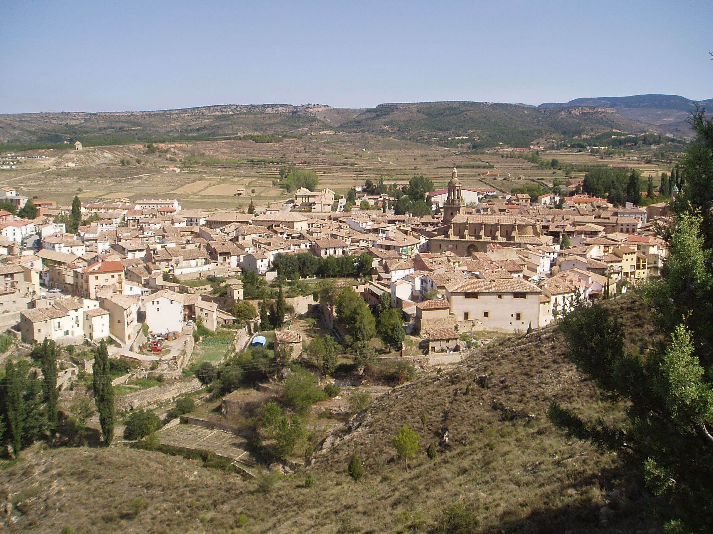 View of Rubielos de Mora. Province of Teruel. Aragón. Spain.